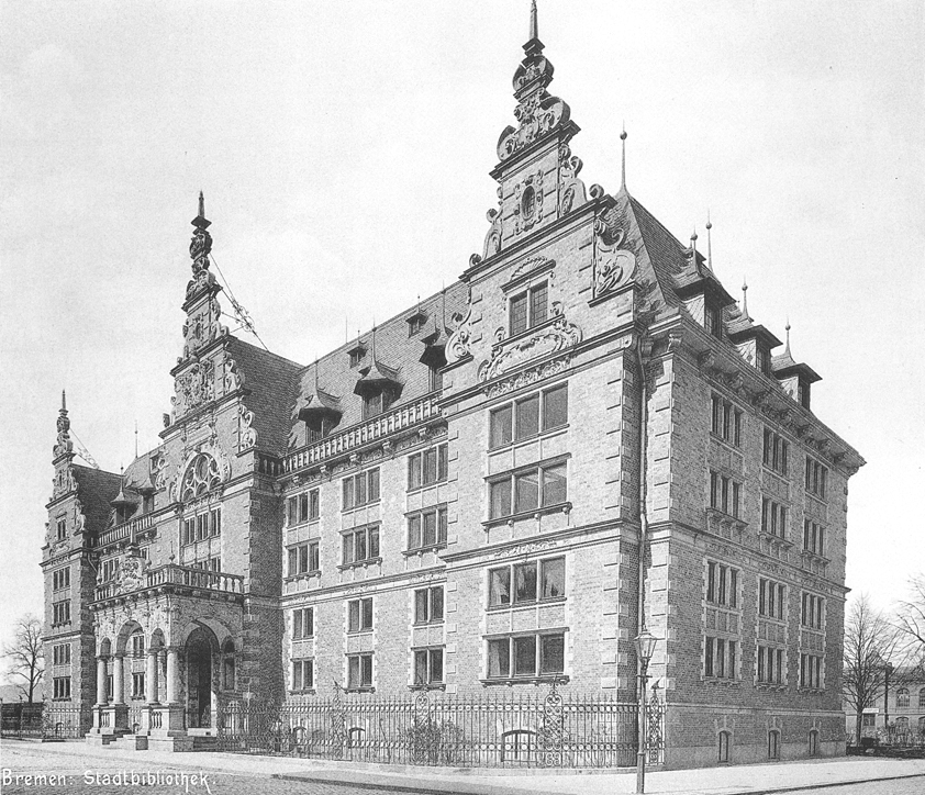 The former city library (later state library) in Bremen, Germany, at the Breitenweg street, near the central train station. The neo-renaissance building by Johann Georg Poppe with three gabels was constructed in the year 1897 and severly damaged in an air raid in 1942.